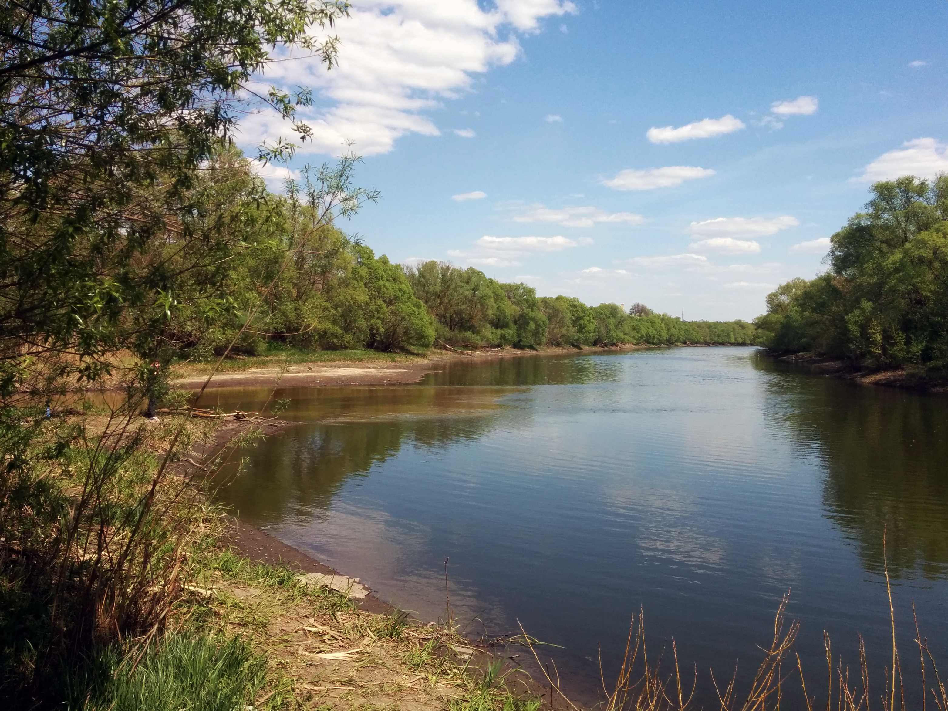 The mouth of the river Tson which flows into the Oka River.